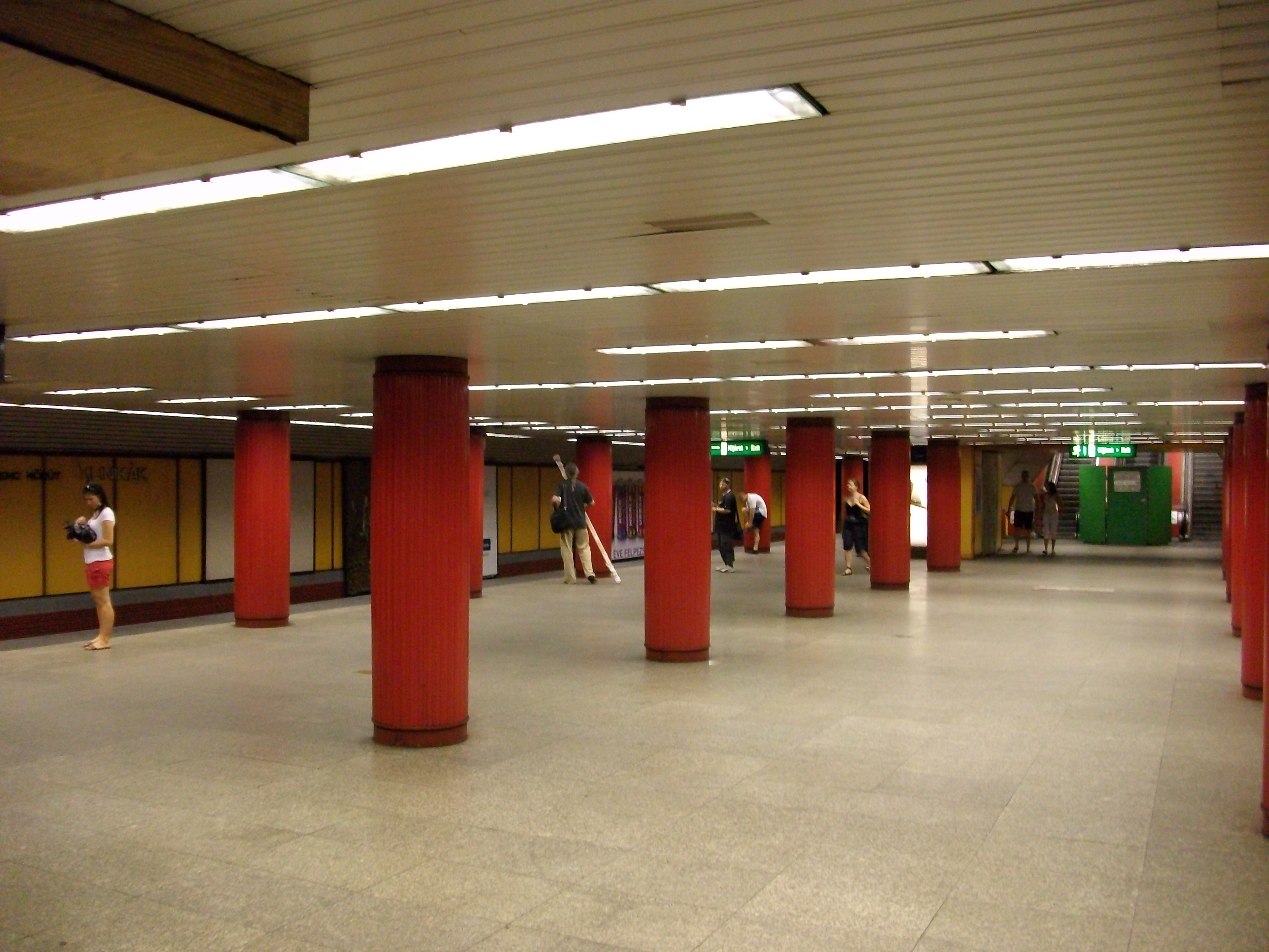 Klinikák metro station, Budapest, Hungary